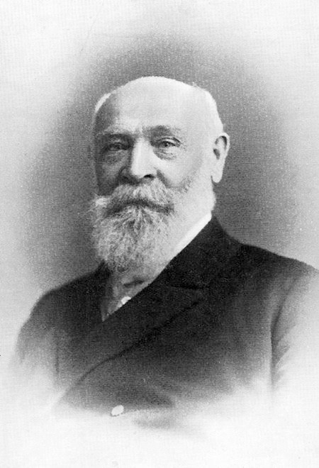 Joseph Rabinowitz (1837-1899), Russian-Jewish convert to Christianity